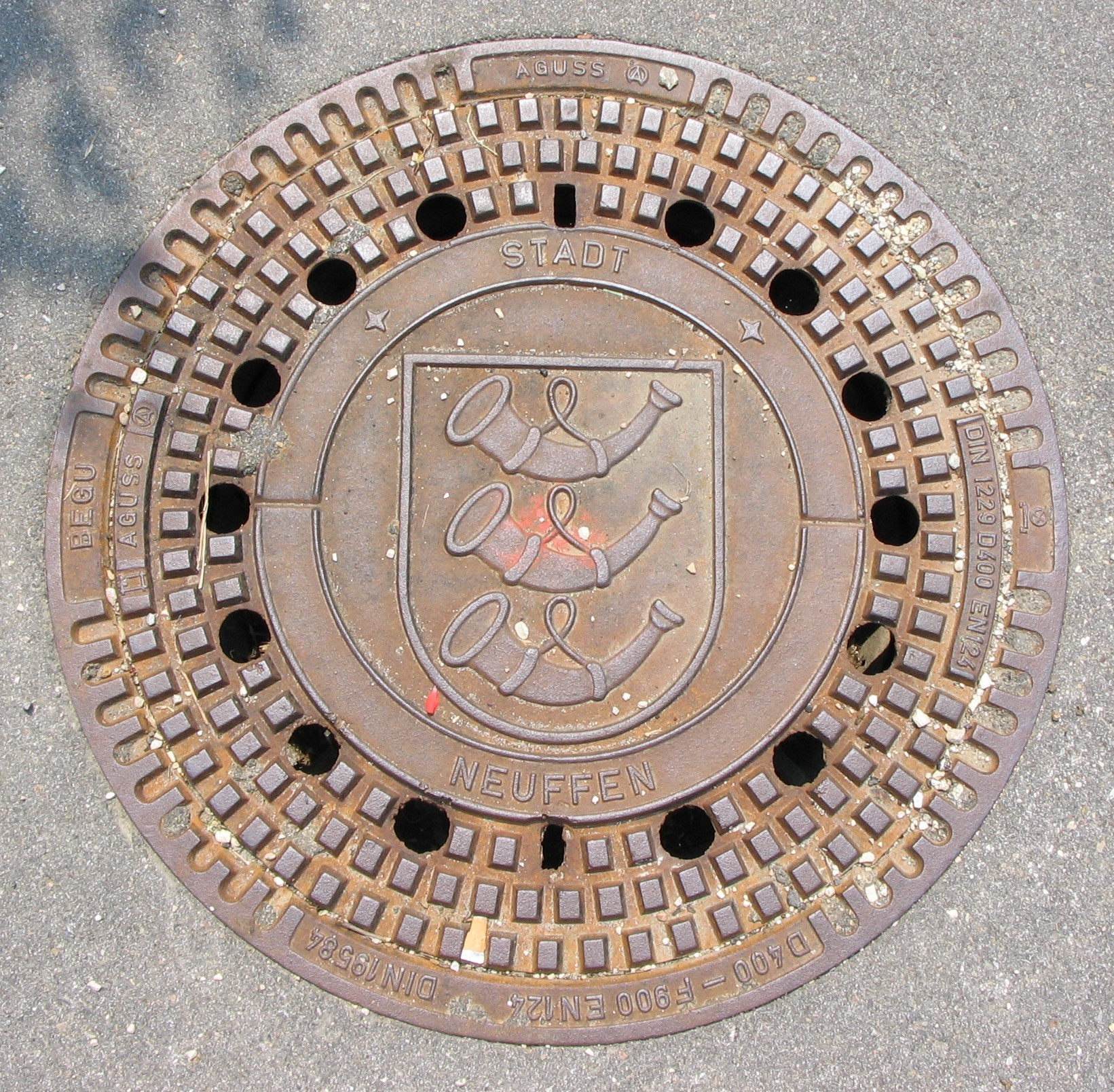 Manhole cover in Neuffen, Germany.